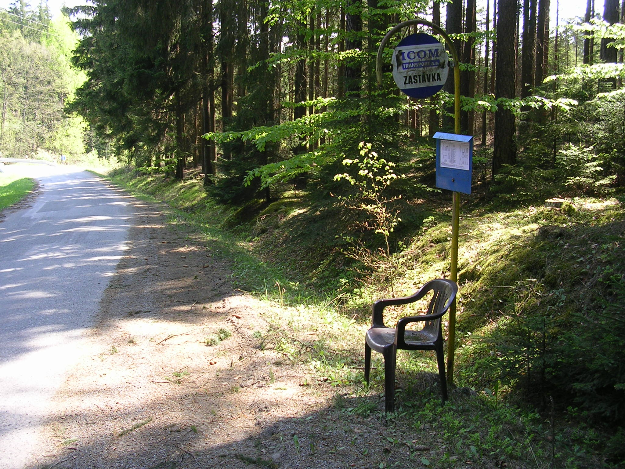 Mezilesí, Vysočina Region, the Czech Republic. A bus stop.